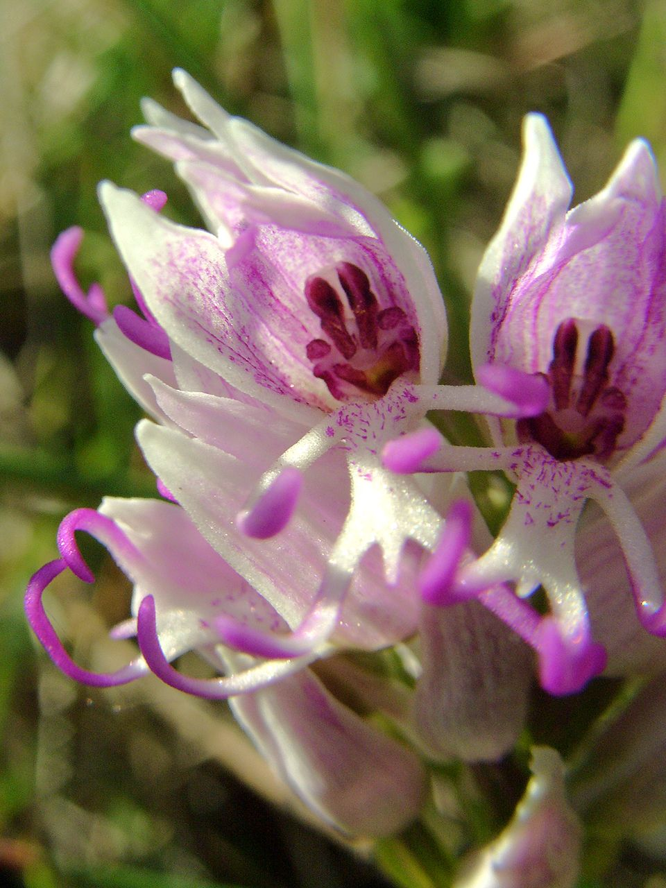 Orchis simia